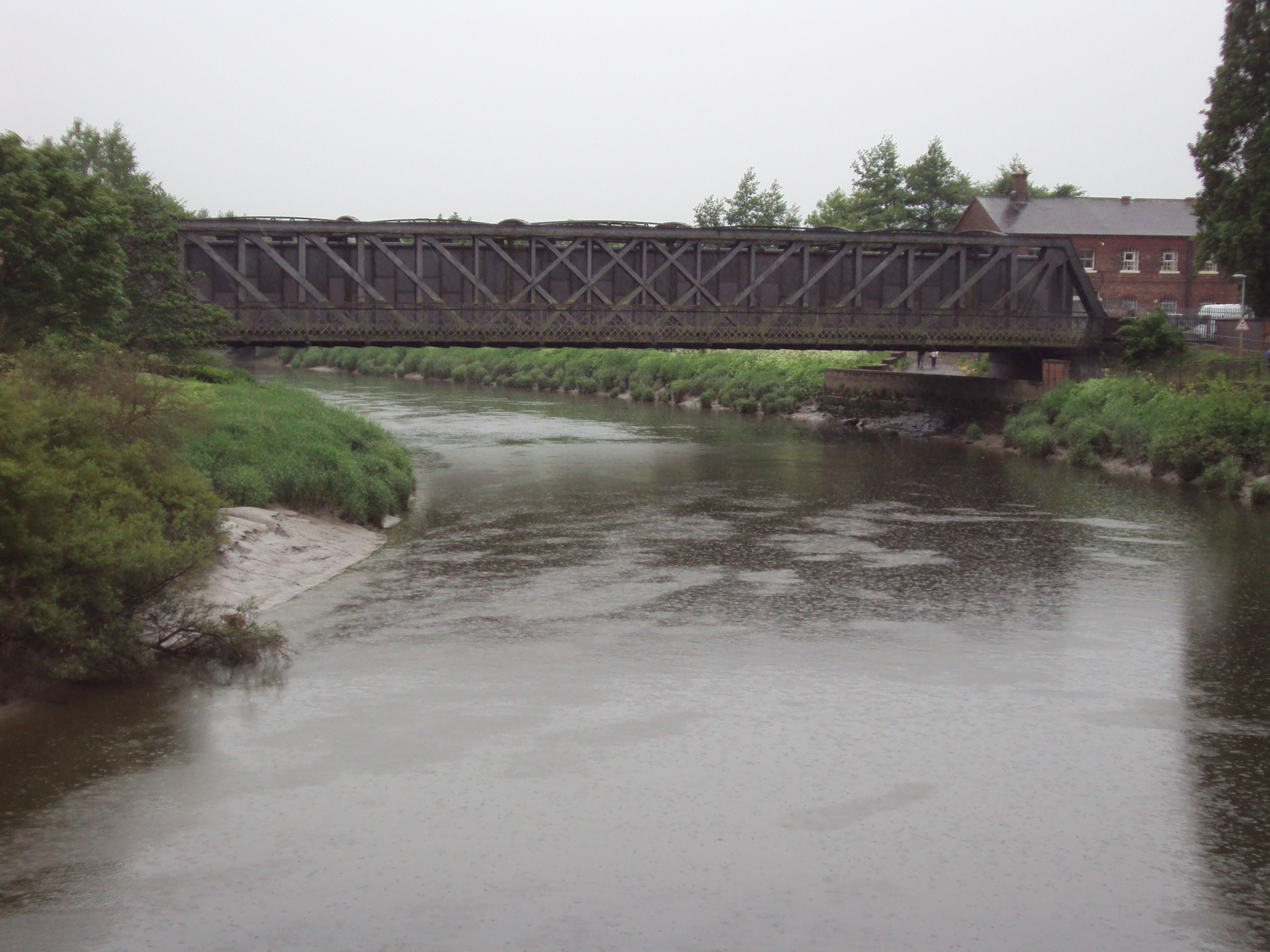 Rail bridge spans the River Mersey at Warrington, Cheshire, England.